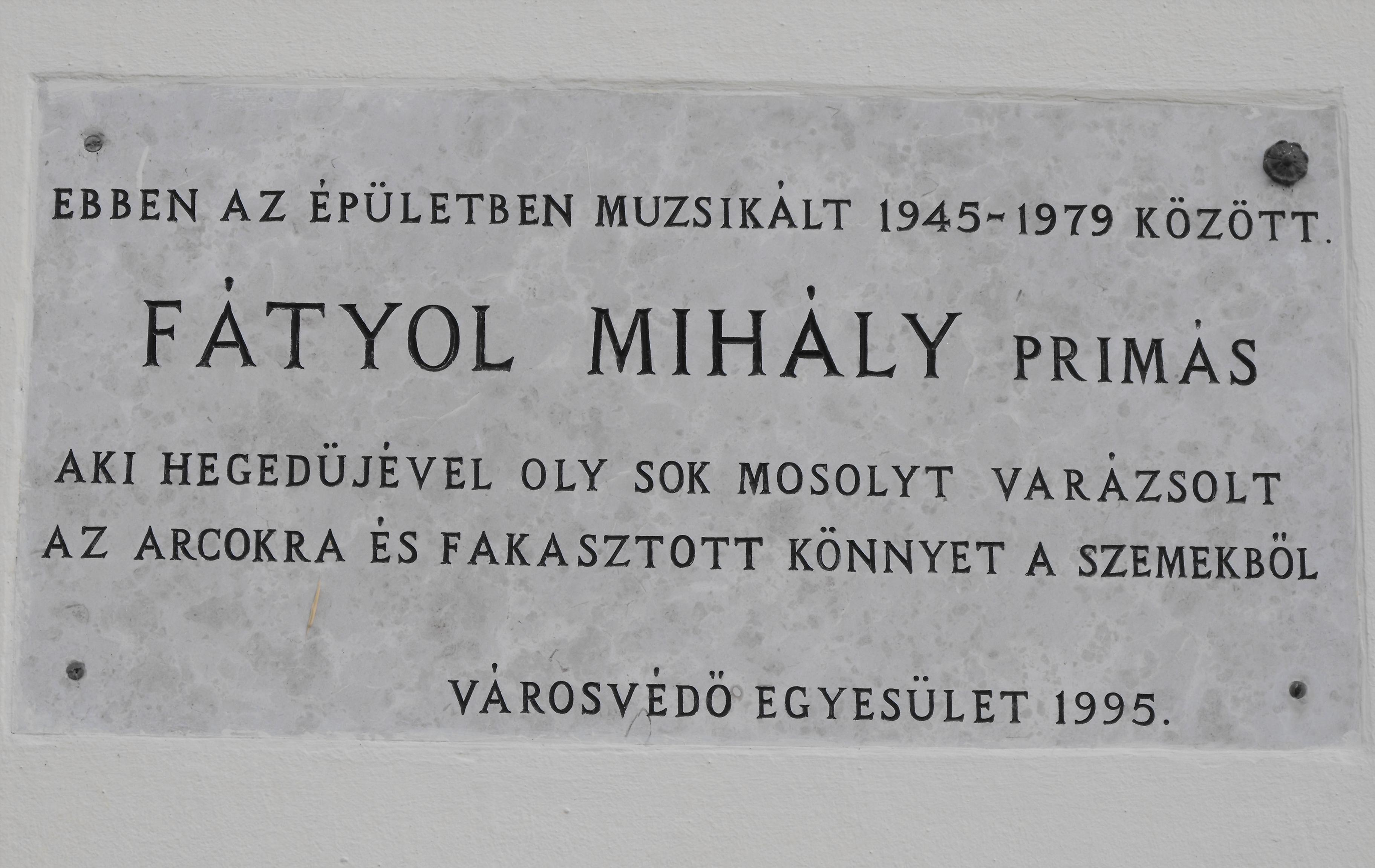 Memorial tablet of Mihály Fátyol, violinist and musician in Makó, Hungary.